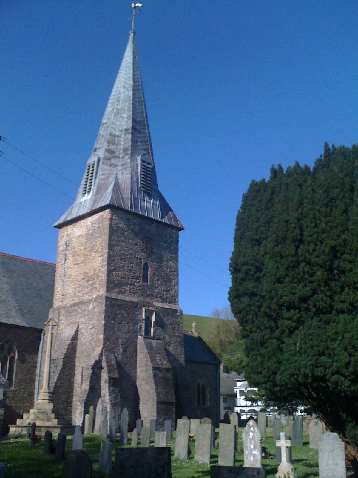 St Brannocks Church